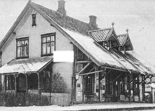 Ås Station, Norway